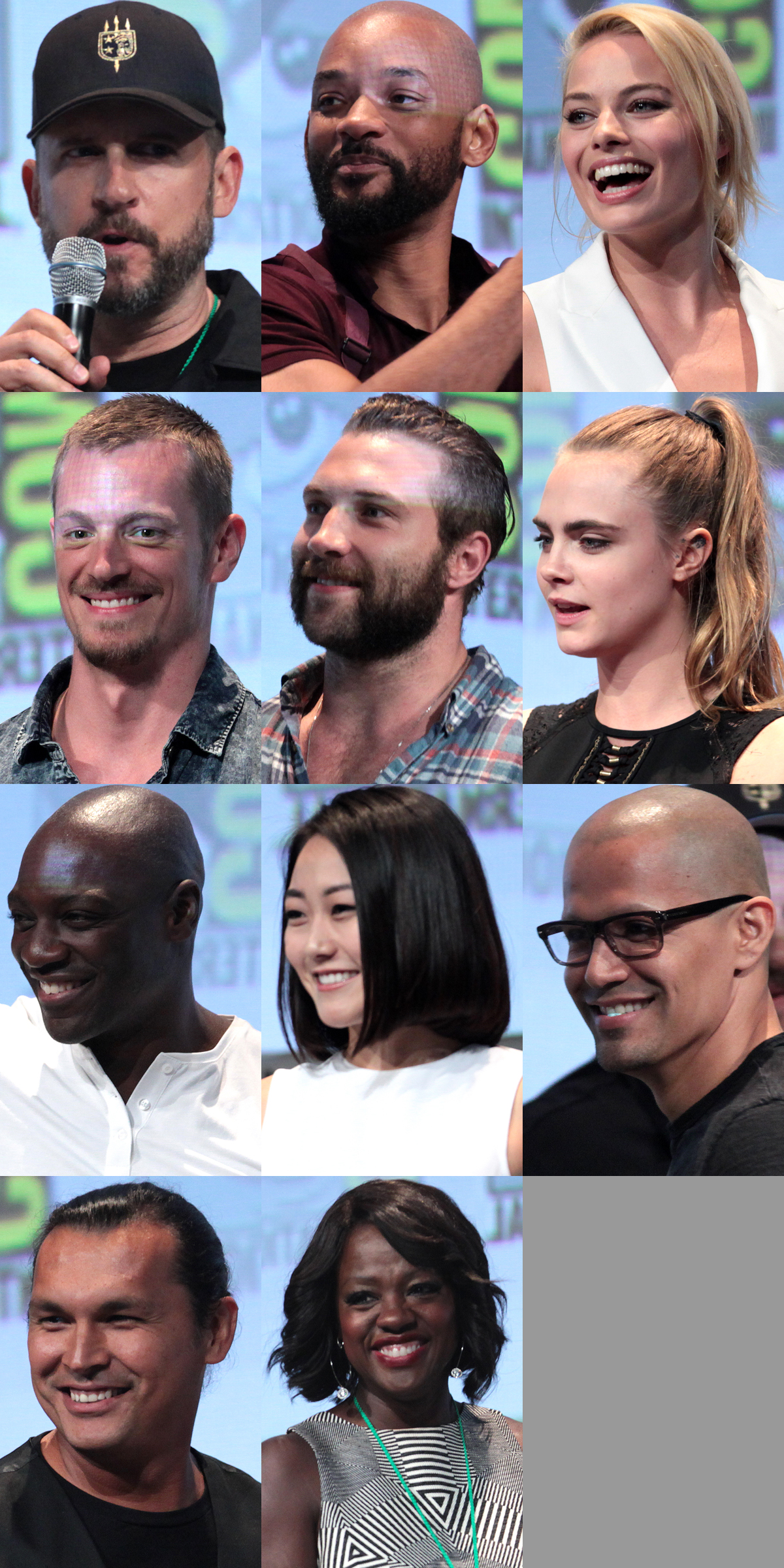 Cast of Suicide Squad at the 2015 San Diego Comic-Con International.